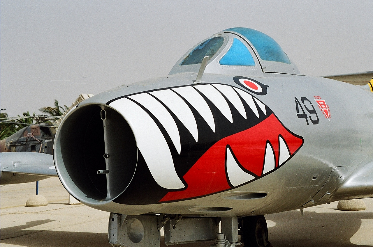 Dassault Ouragan at the Israeli Air Force Museum in Hatzerim